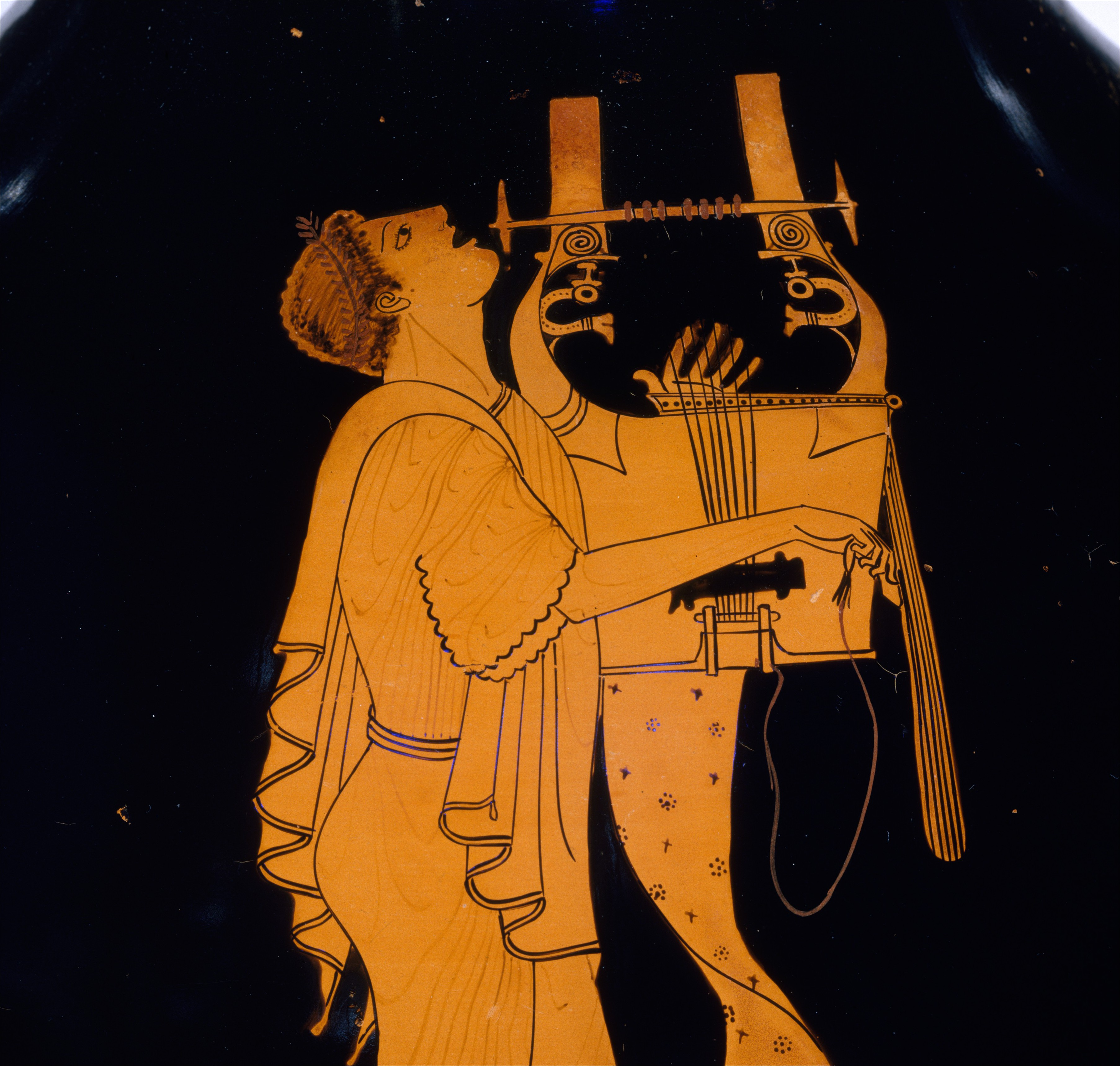 Greek, Attic; Amphora; Vases; Obverse, young man singing and playing the kithara; Reverse, judge